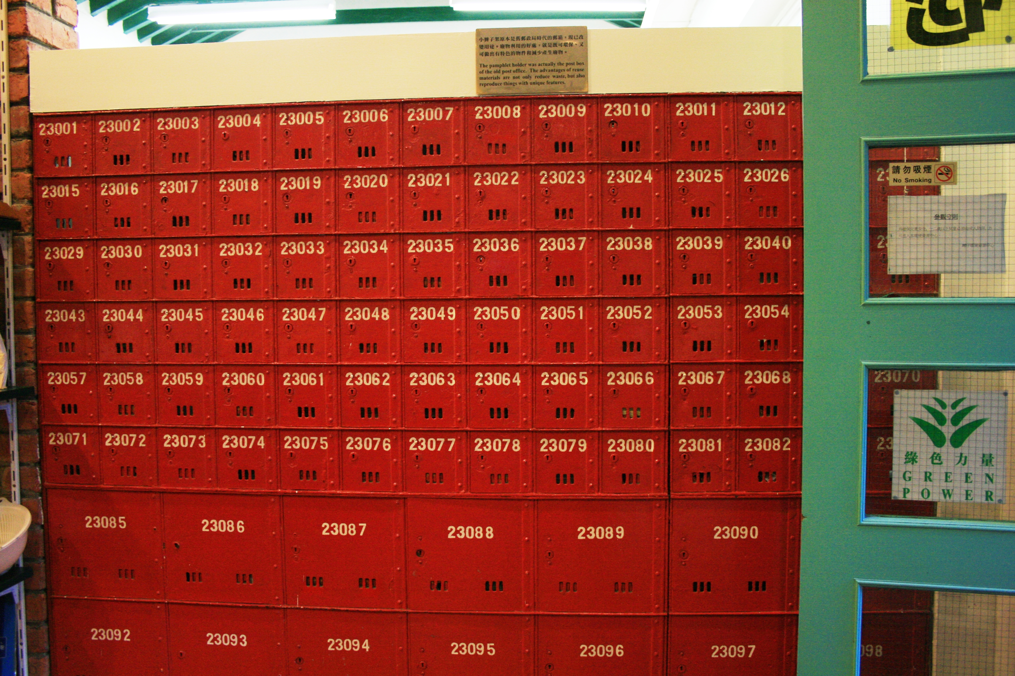 Wanchaioldpost舊郵政局郵箱